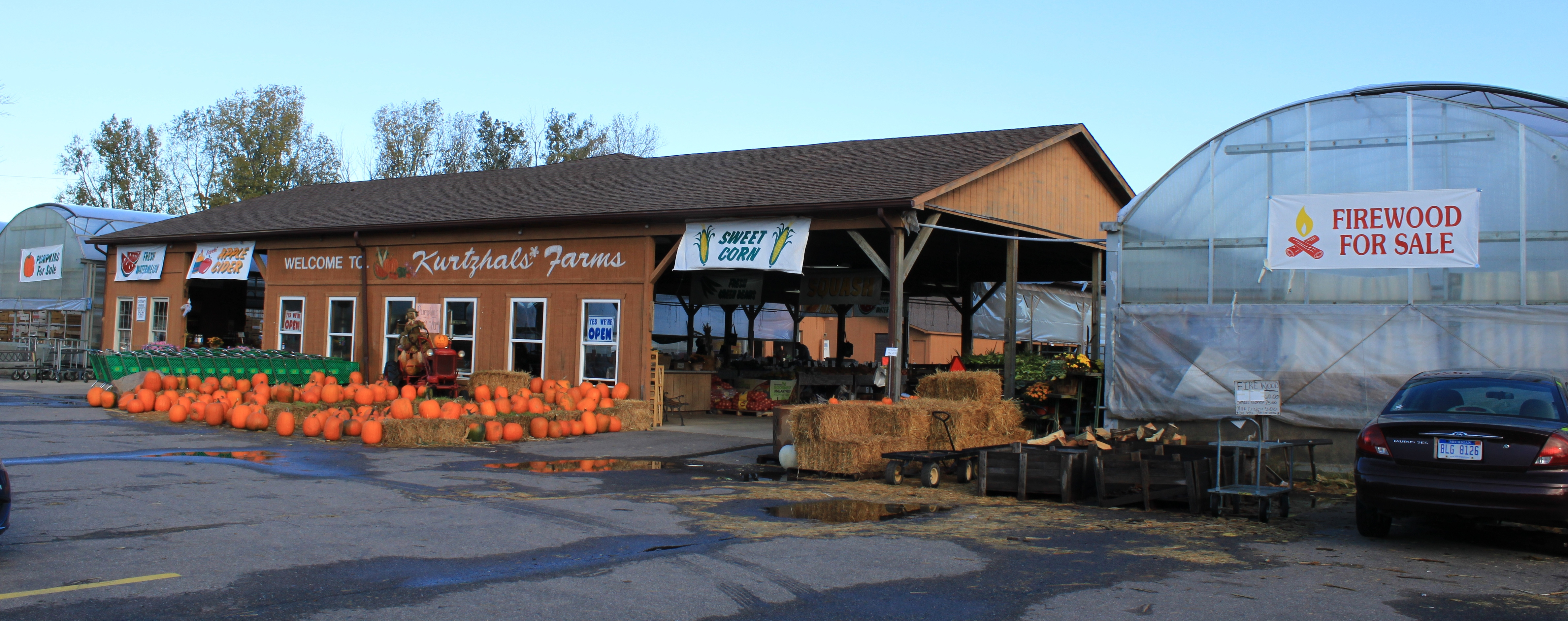 Kurtzhals Farms, 27098 Sibley Road, Brownstown Township, Michigan.